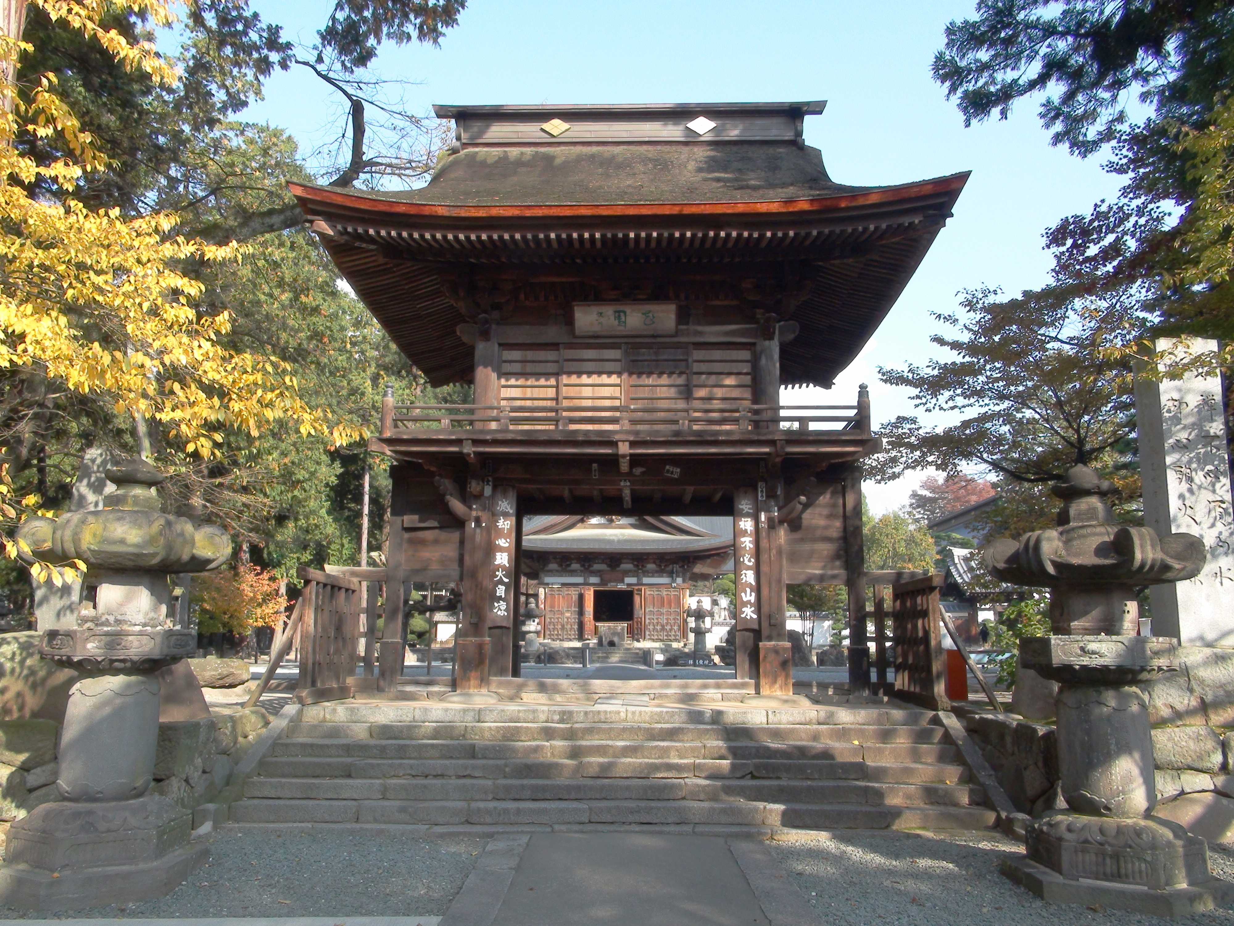 Erinji main gate